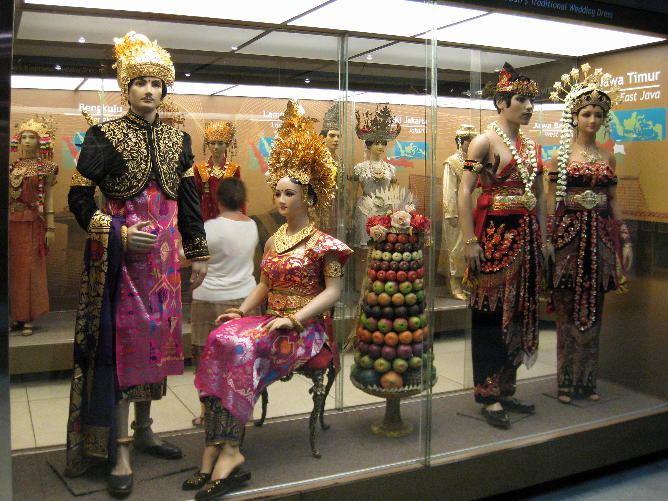 The manequins displaying the traditional dress and costumes of Indonesian native culture of each provinces. The front left is wedding costumes of Bali and on the right is East Java couple. The background is other wedding dress of other provinces in Indonesia. Museum Indonesia, Taman Mini Indonesia Indah, Jakarta.